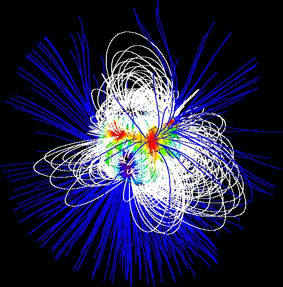 Magnetic field of the young star SU Aur, reconstructed by Zeeman-Doppler mapping.